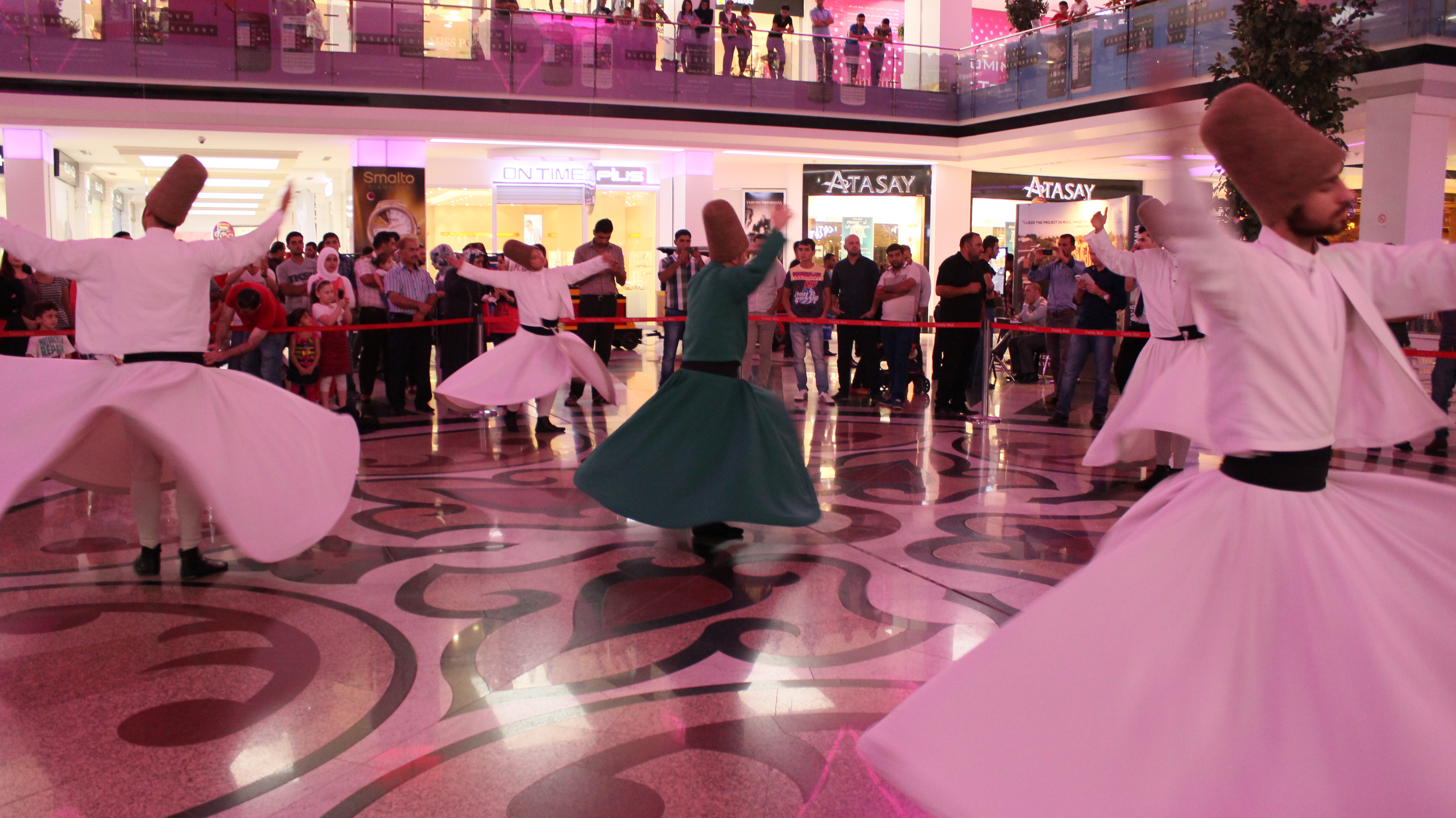 Sufi whirling in iraqi kurdistan in Family mall